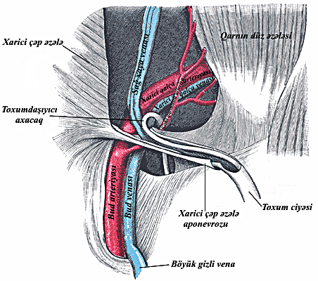 The spermatic cord in the inguinal canal. (Poirier and Charpy.)